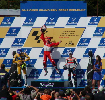 Loris Capirossi, win in GP Brno 2006